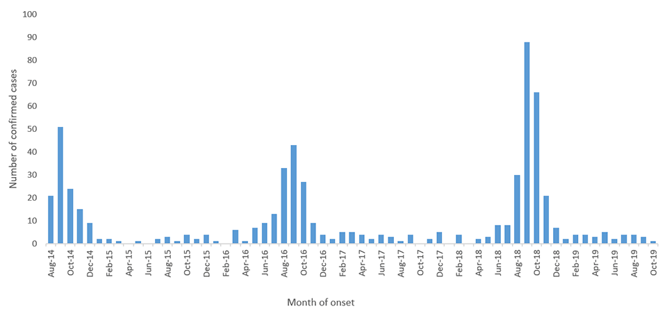 Graph showing the seasonal nature of the occurrence of " acute flaccid myelitis "(AFM), a rare but serious neurologic illness of sudden onset, usually in children. It presents with localised limb weakness of unknown cause. A leading candidate for the cause of the condition is enterovirus 68, a member of the enterovirus genus and thus related to poliovirus. Although the illness is not new, its increased incidence since 2014 is new; the existing literature about it is tentative and should not be taken as established medical opinion.